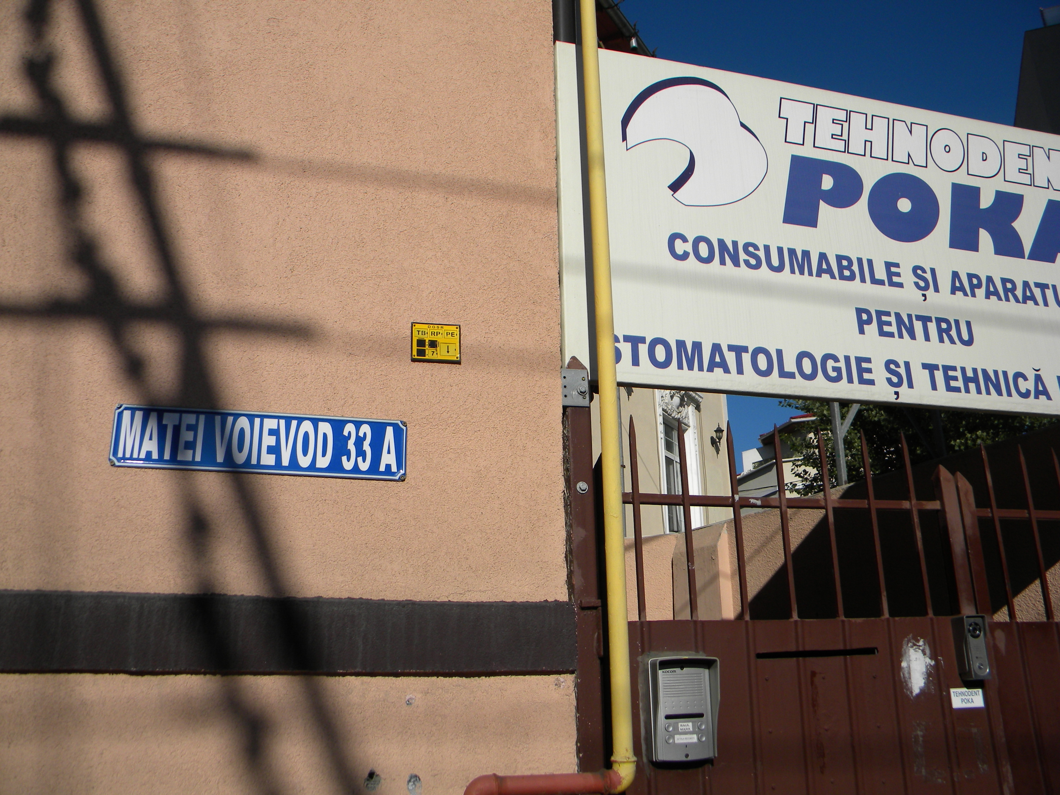 Bucuresti, Romania, Str. Matei Voievod nr. 33A, sect. 2, (B-II-m-B-19166)